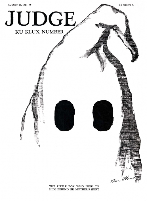 Judge Magazine Cover (16 Aug 1924)